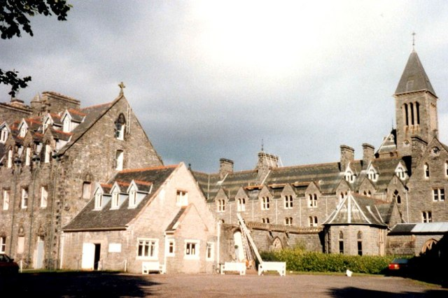 Mount St Bernard's Abbey, Charley, Leicestershire